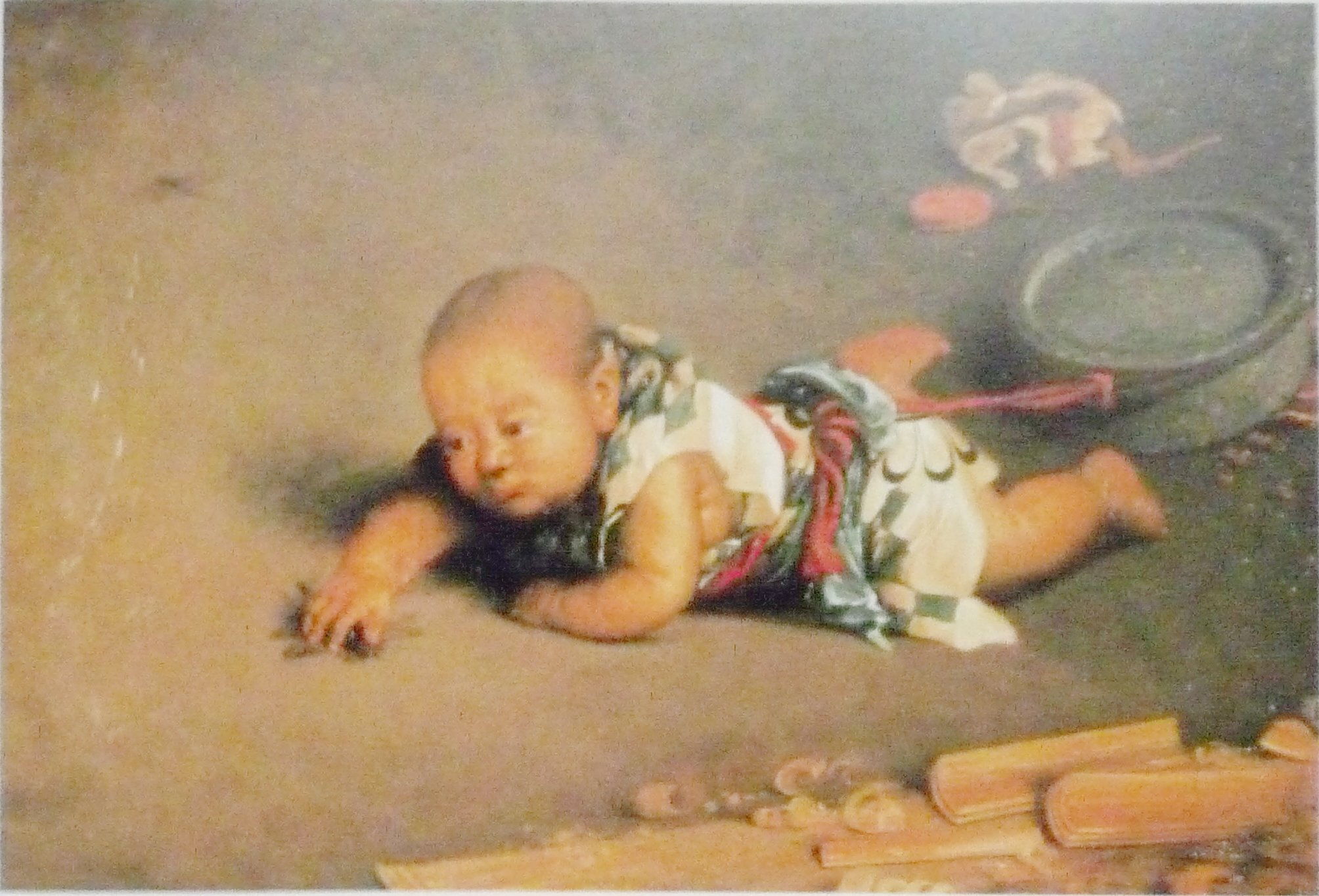 Watanabe Yukou(1856-1942) "Youji-zu" (The Baby)